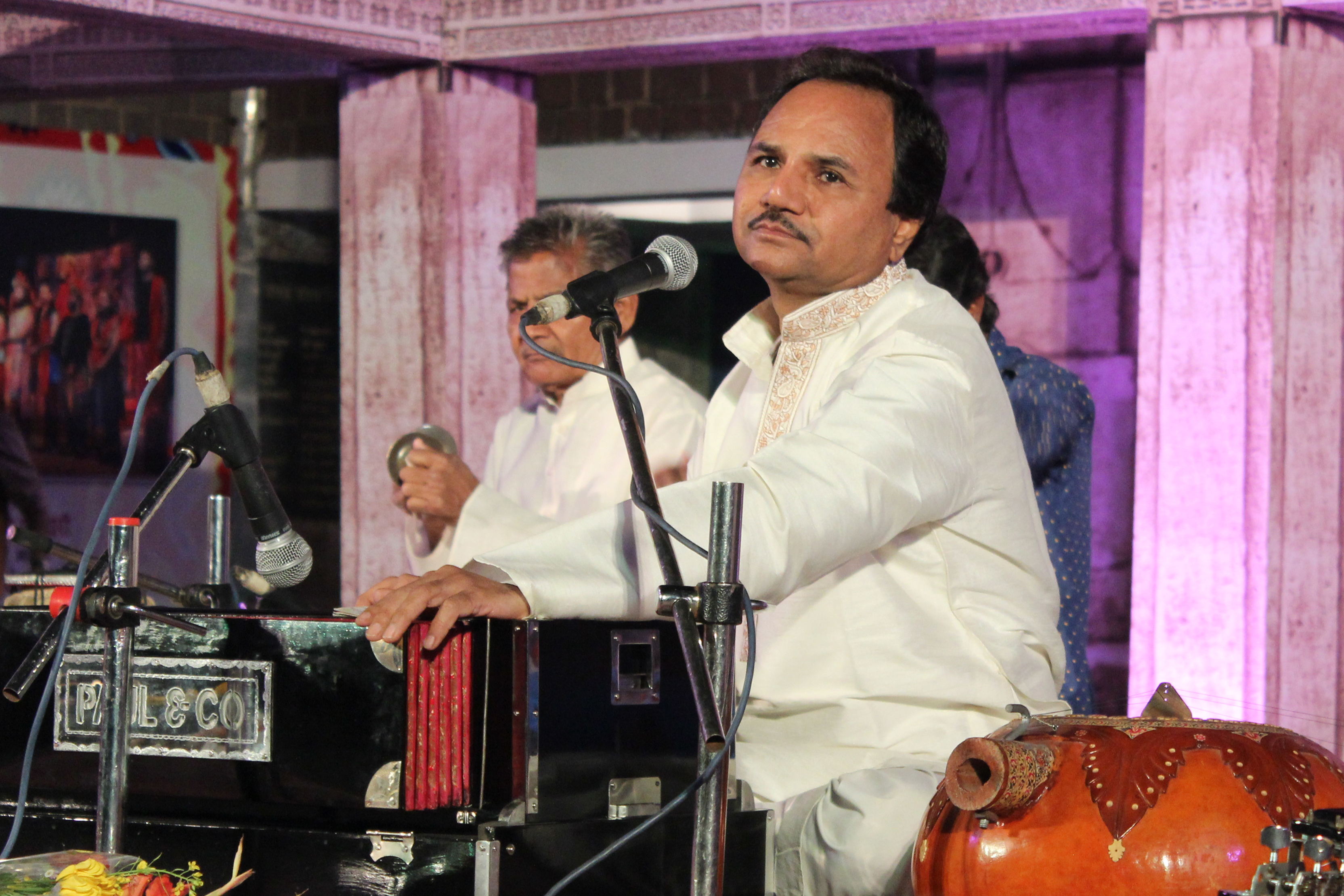 Hemant Chauhan is a Gujarati writer and singer. He specializes in Bhajan, religious and Garba songs and other folk genres,performing at Bharat Bhavan Bhopal India